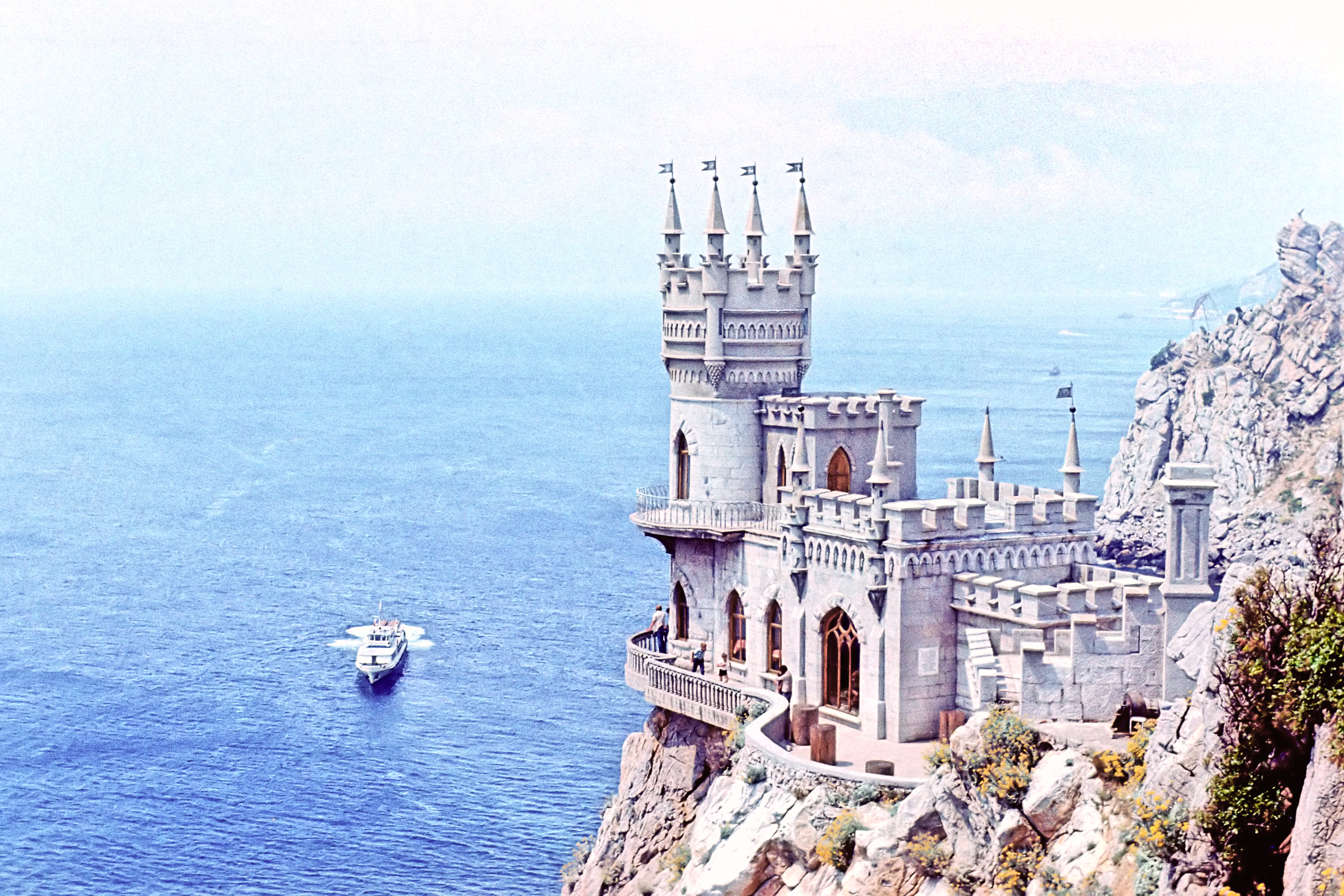 The Swallow's Nest, one of the Neo-Gothic châteaux fantastiques near Yalta, Ukraine. A restaurant.